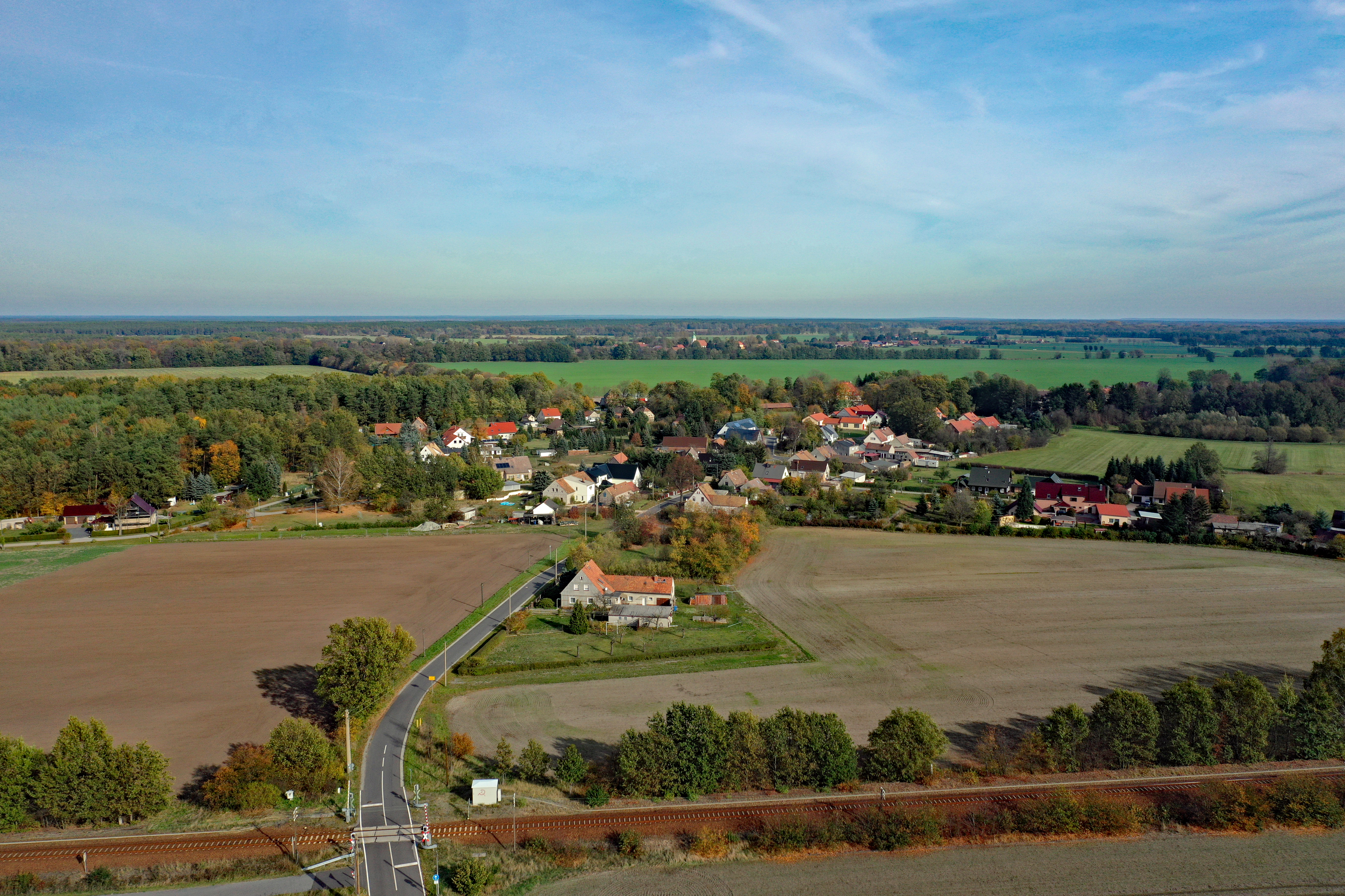 Teicha (Rietschen, Landkreis Görlitz, Saxony, Germany) Hornjoserbsce: Powětrowy wobraz Hatka pola Rěčic